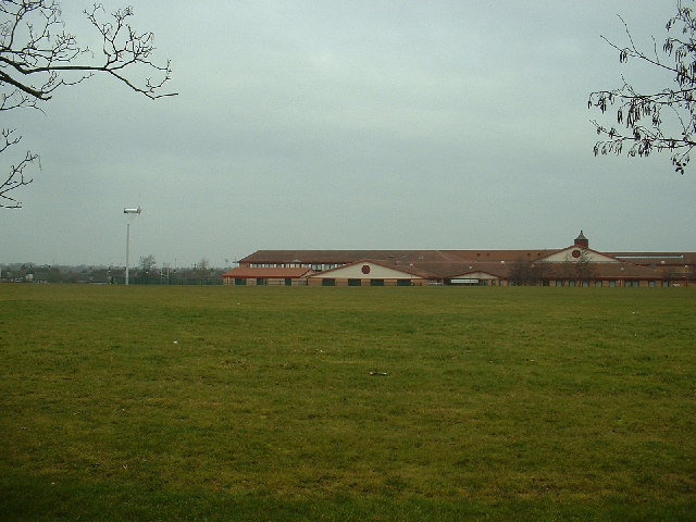 Ashton Community Science College, Preston. Complete with wind powered generator.